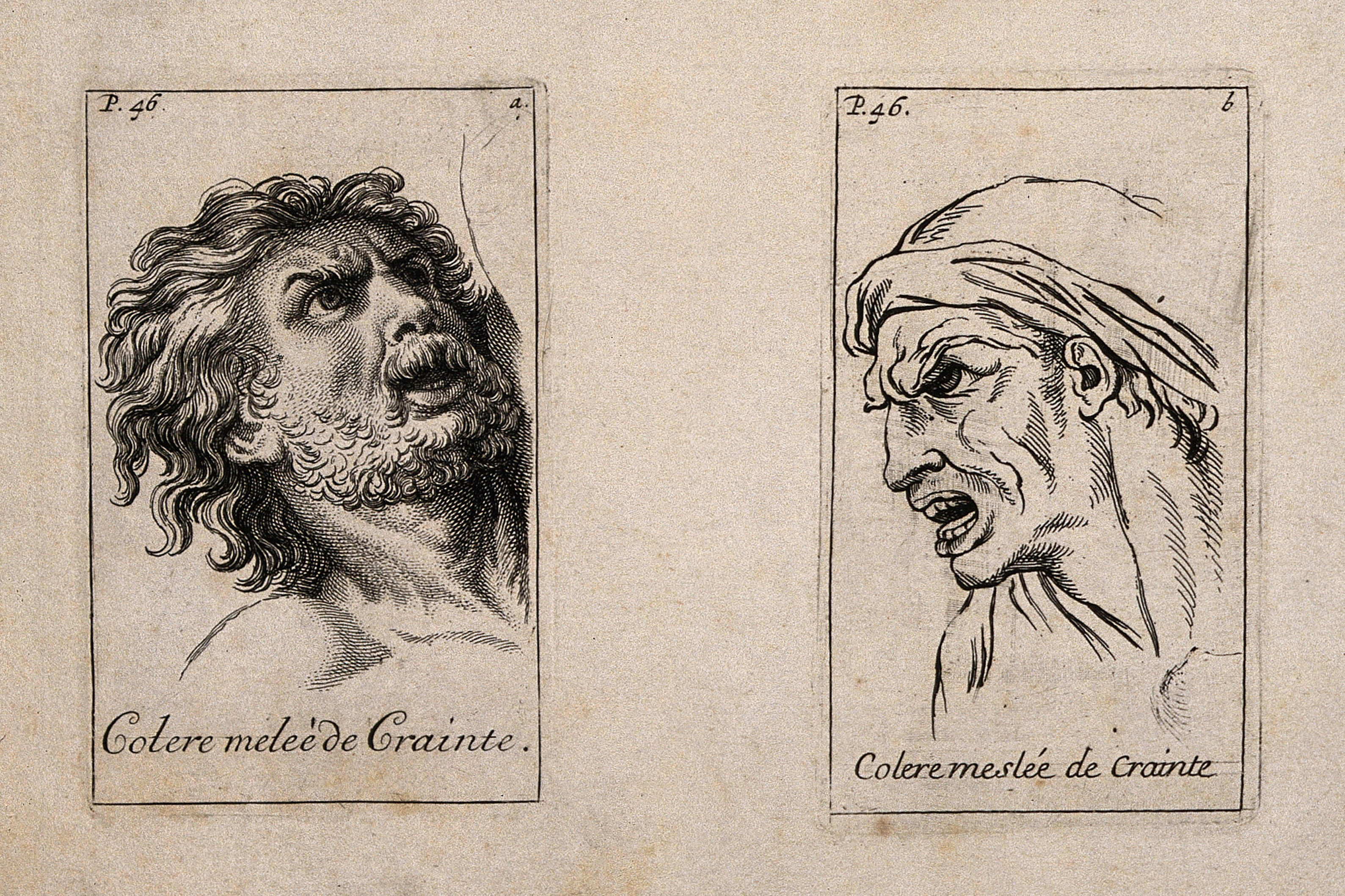 Two male faces expressing anger mingled with fear. Etching by B. Picart, 1713, after C. Le Brun. Iconographic Collections Keywords: Charles Le Brun; Bernard Picart